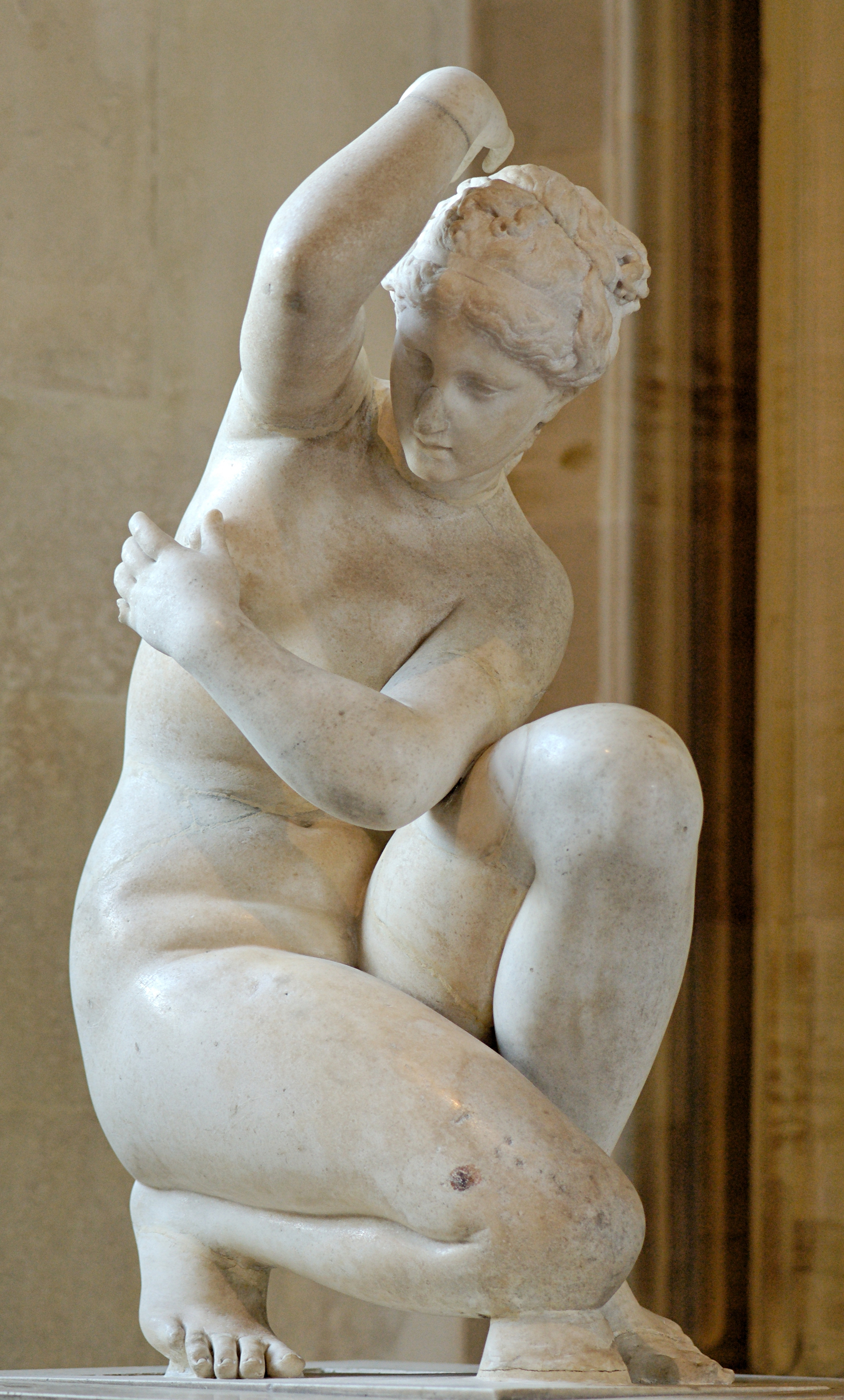 Crouching Aphrodite. Marble, Roman variant of the Imperial Era after a Hellenistic type: the goddess is raising her left hand towards her neck whereas the protype used to cross her arms on her breast.